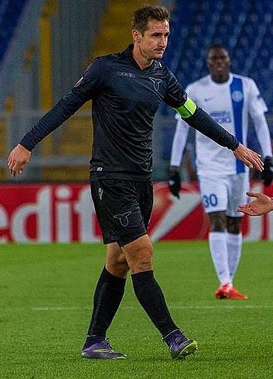 Miroslav Klose